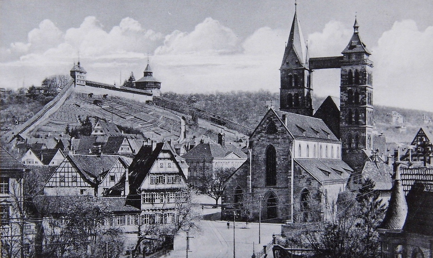 Esslingen am Neckar. View of the old town with the city church (Stadtkirche) and the fortifications. Cropped from a postcard from the early 1900s.